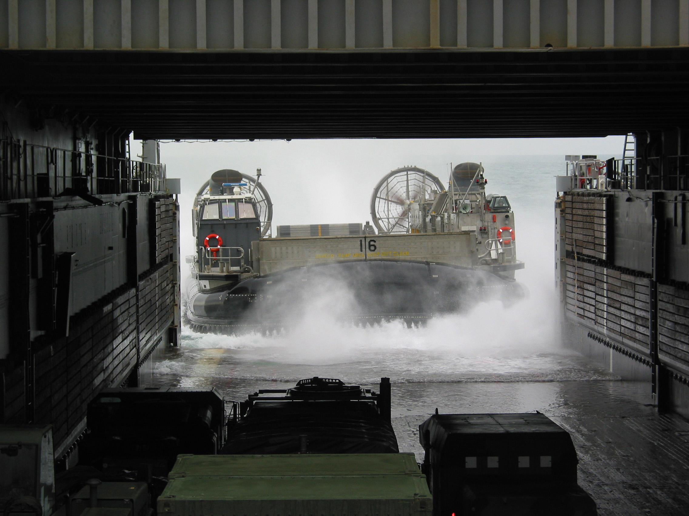 Central Command Area of Responsibility (Feb. 24, 2003) - The amphibious dock landing ship USS Anchorage (LSD 36) recovers a Landing Craft, Air Cushion (LCAC) to prepare for another load of equipment and Marines, assigned to 1st Marine Expeditionary Battalion (1 MEB), for a trip to shore. Anchorage is one of seven San Diego, Calif.-based ships that have deployed in support of future operations in the Central Command Area of Responsibility. U.S. Navy photo by Journalist 1st Class Joseph Krypel (RELEASED)